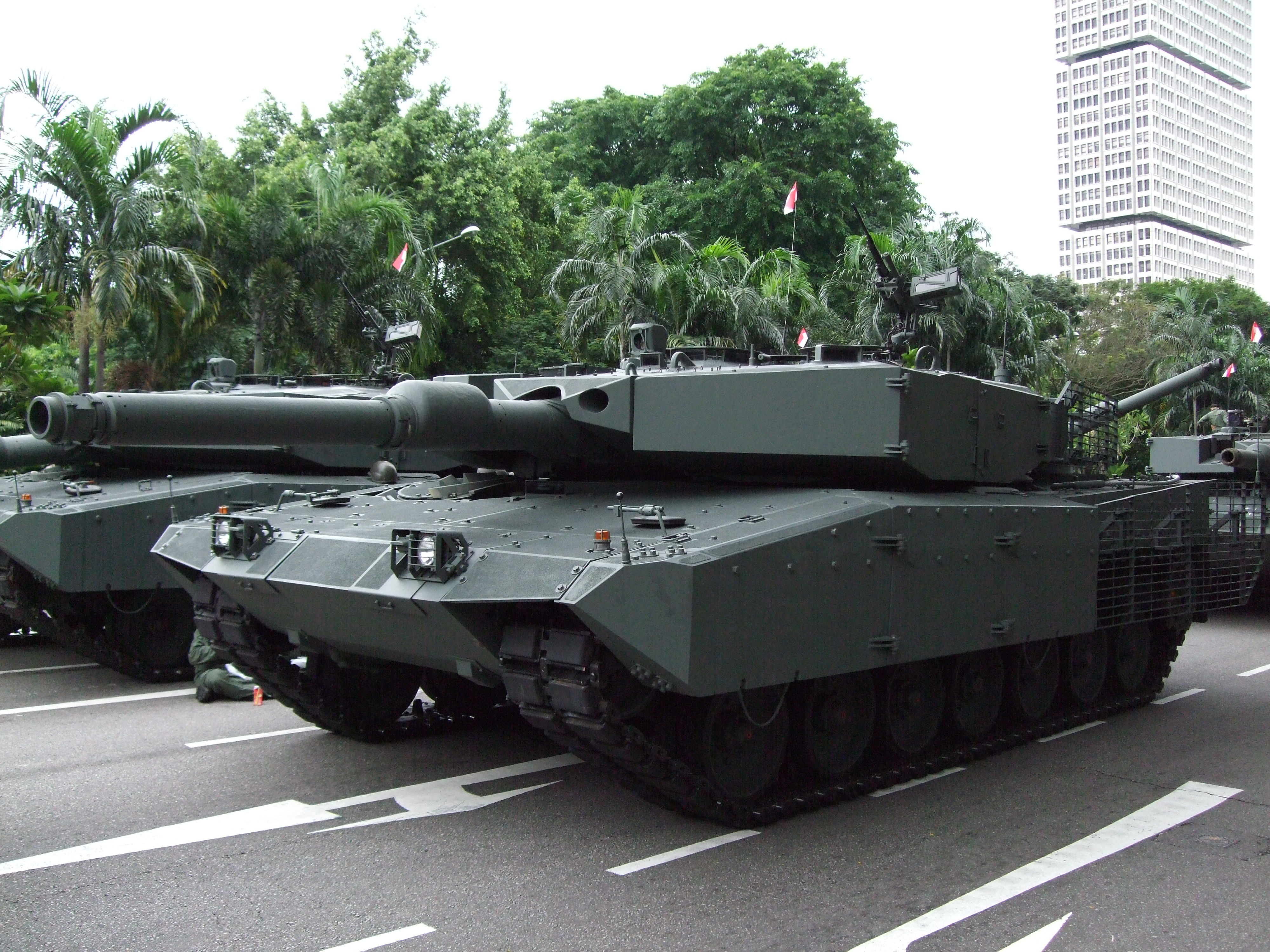 Leopard 2A4 MBT with Advanced_Modular_Armor_Protection AMAP add-on armor, National Day Parade 2010 Combined Rehearsal 3.